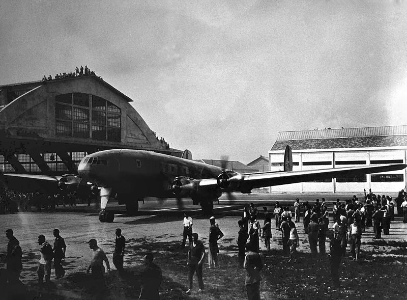 The Italian Breda-Zappata BZ.308 airliner